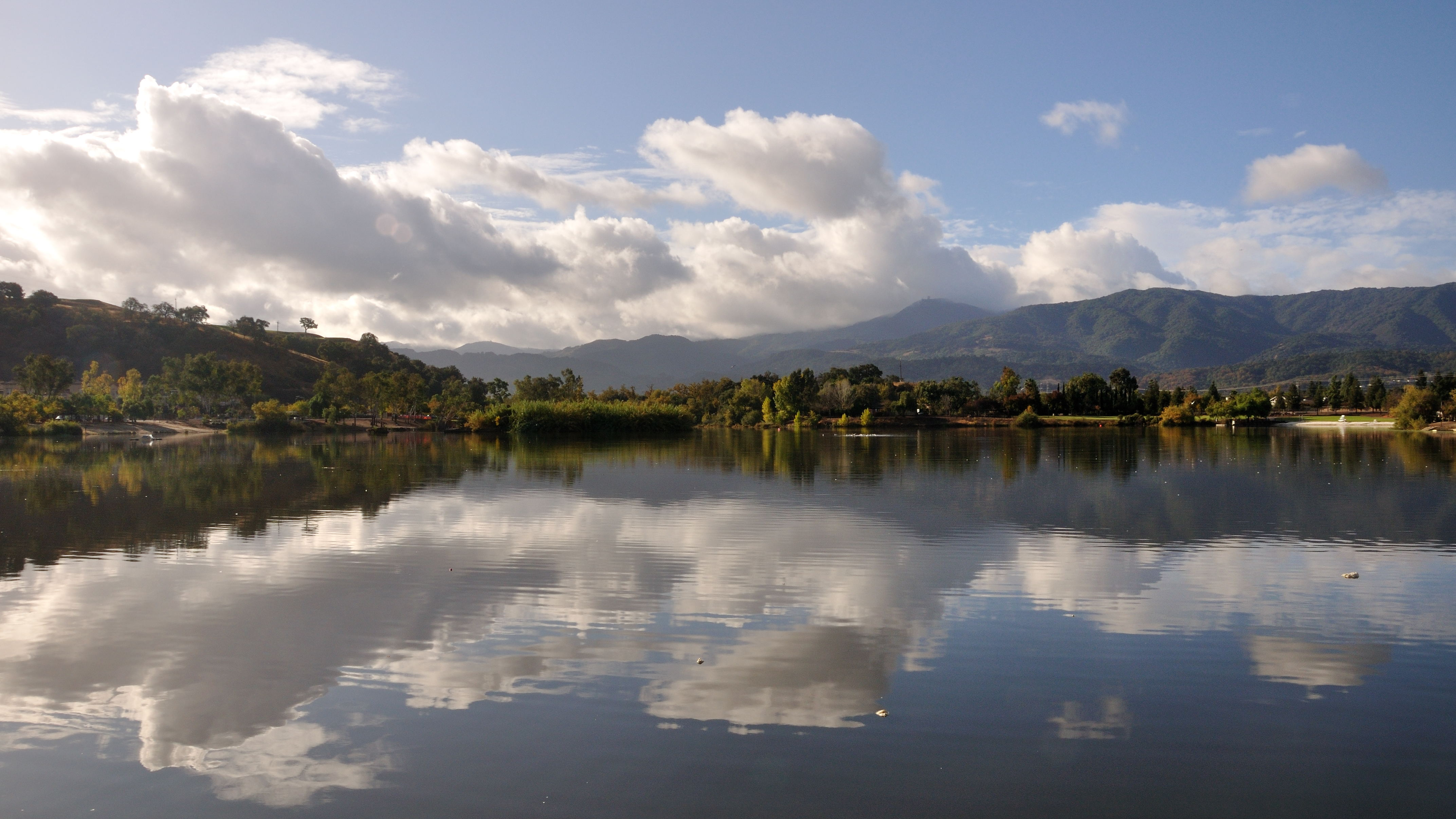 Scene from Almaden Lake Park